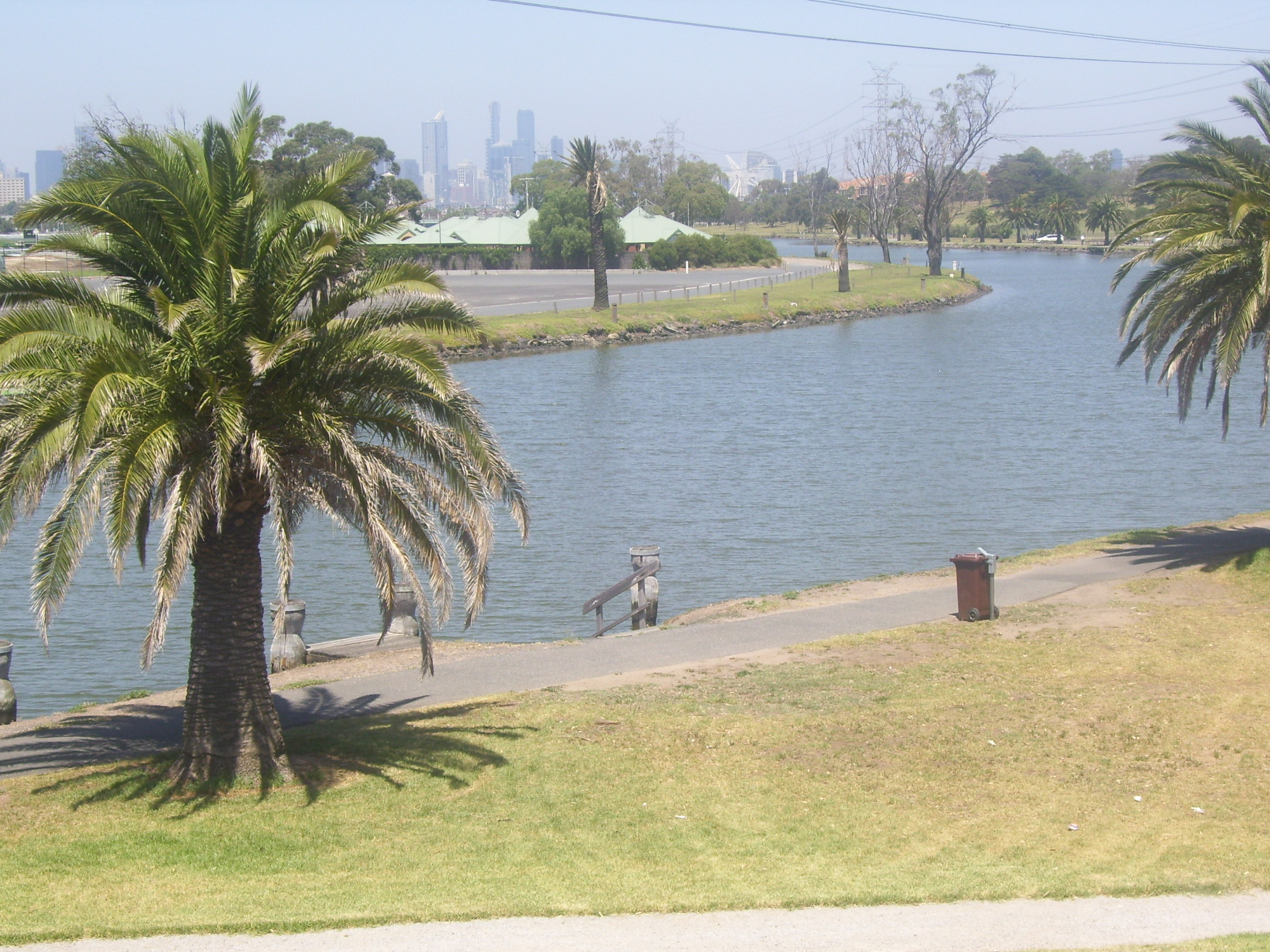 Maribyrnong River at Footscray looking towards the CBD